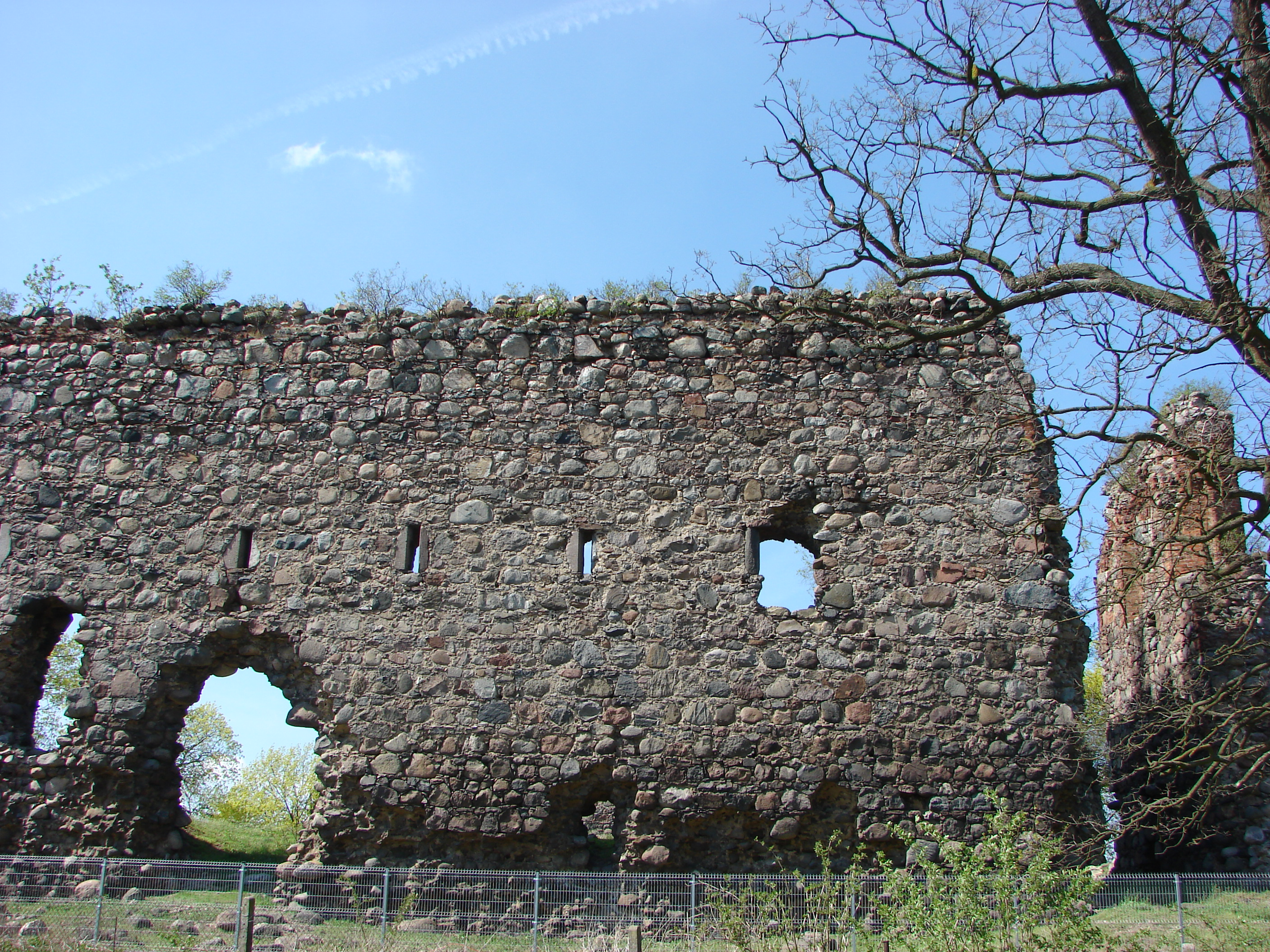 Papowo Bikupie, Ruins of the Teutonic Castle.